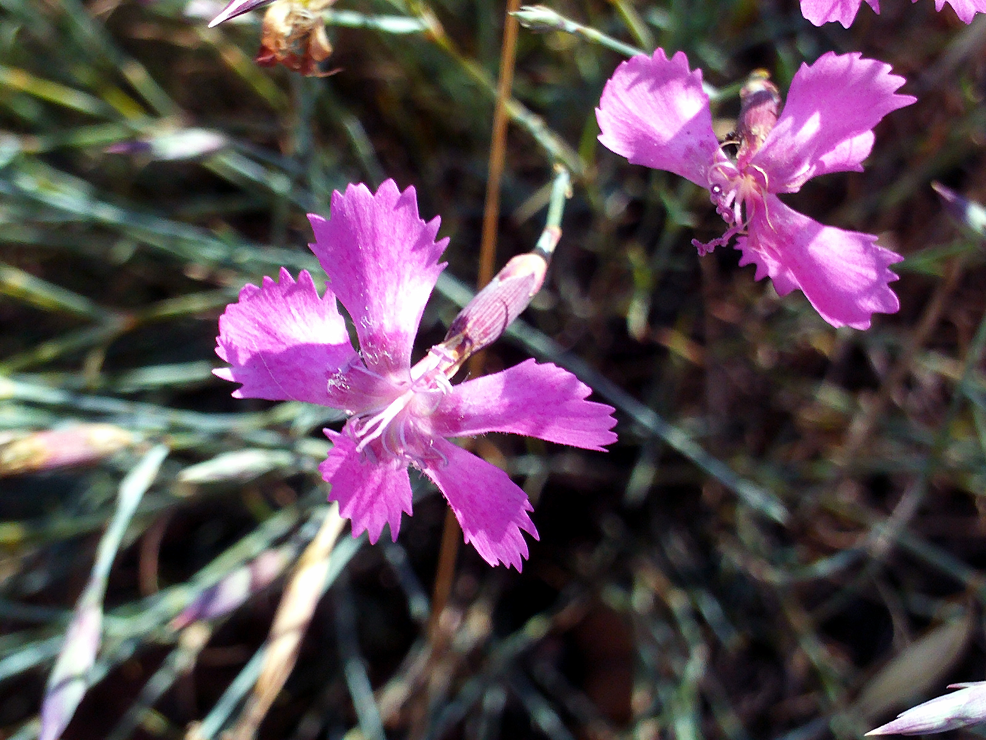 Dianthus_toletanus Closeup Puertollano Puertollano, Spain